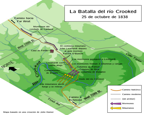 Map of the Battle of Crooked River by John Hamer, permission granted for use on Wikipedia. I assert that this image is original to me and I'm releasing it under the cc2.5 rules. --John Hamer 03:05, 14 February 2006 (UTC)